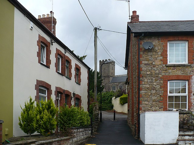 The approach to St Mellons Church. There are a cluster of nineteenth century cottages to the south of the parish church 1493859. The area around the parish church is now known as Old St Mellons to distinguish it from the nearby large 20th century St Mellons housing estate.